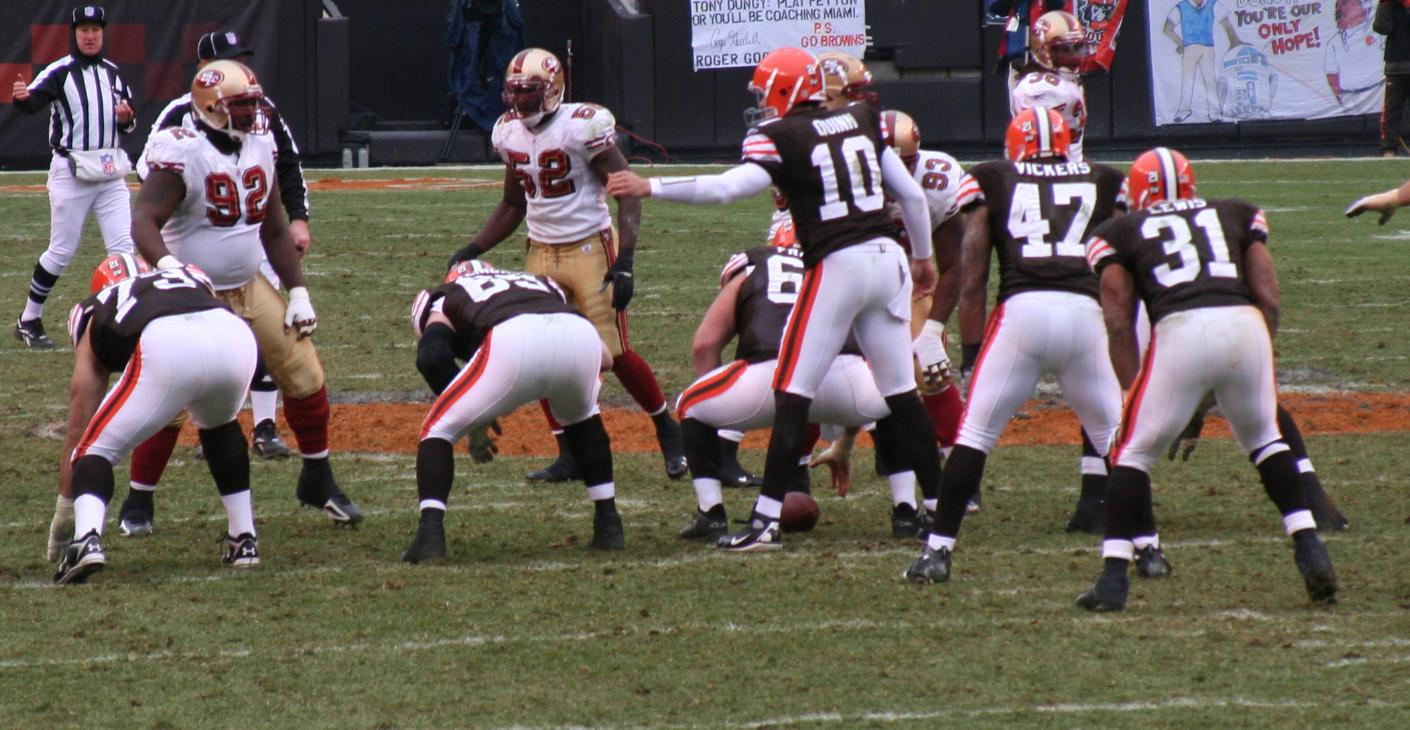 Brady quinn's first game